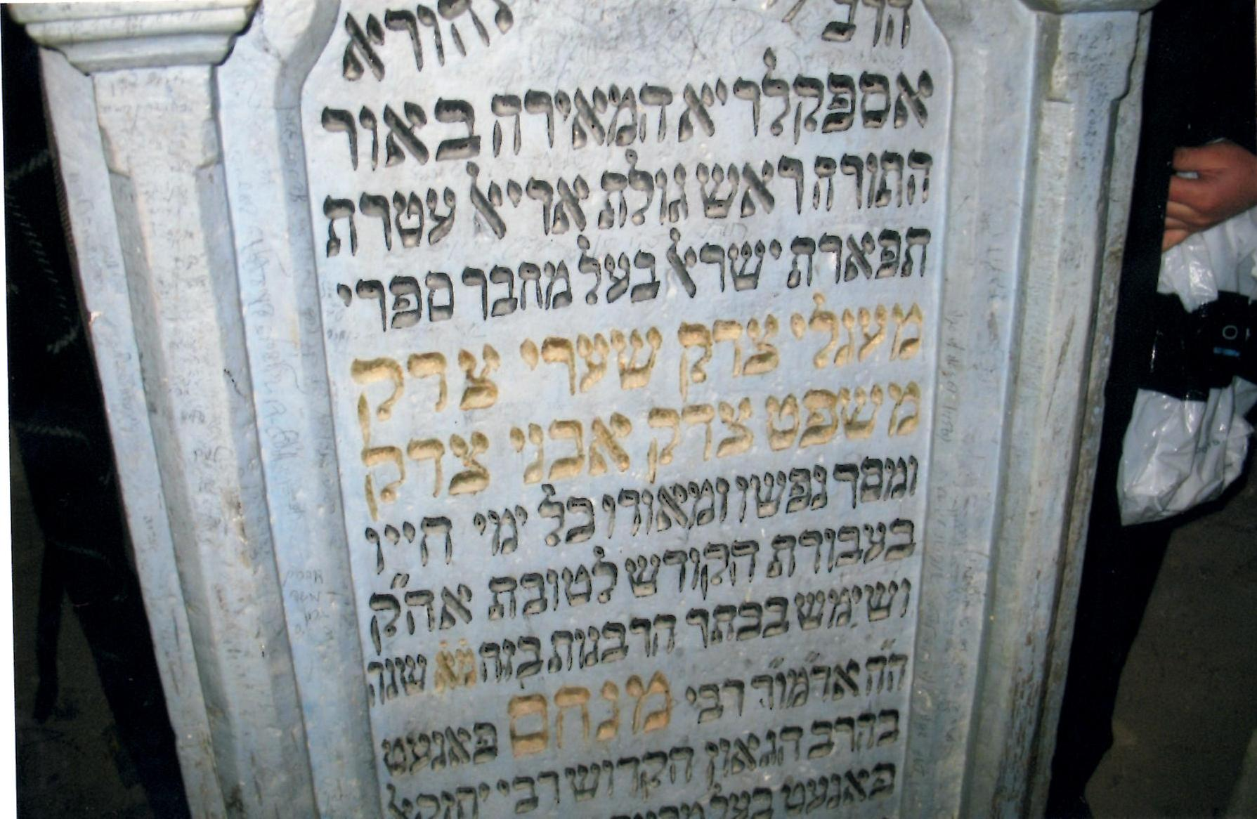 tombstone of the Dezher Rebbe "Avnei Tsedek"